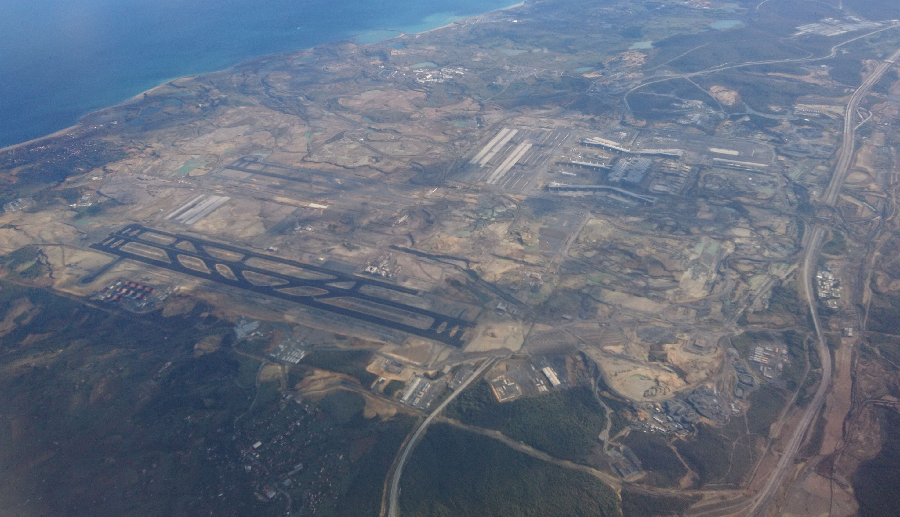 Air photo of the third Istanbul international airport under construction